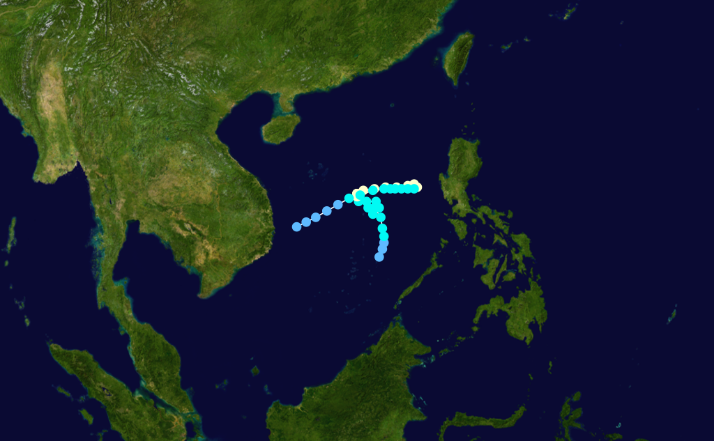 Typhoon Warren 1984 track. Uses the color scheme from the Saffir-Simpson Hurricane Scale.